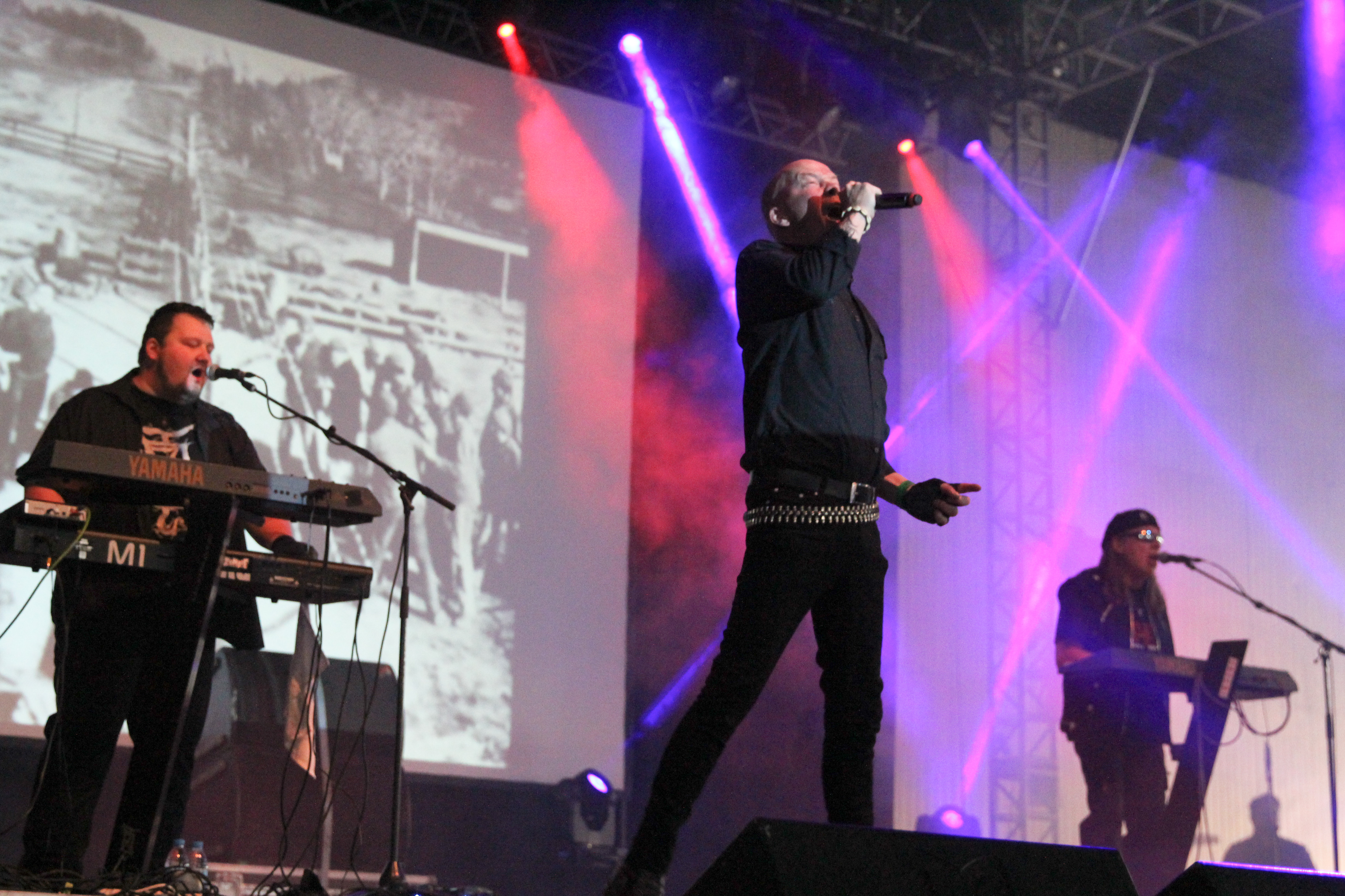 The Eternal Afflict at the Wave-Gotik-Treffen 2014. Agra-Halle